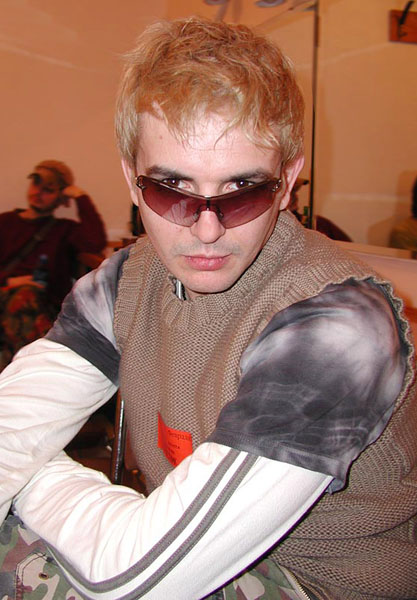 Ivan Demyan - russian rock singer